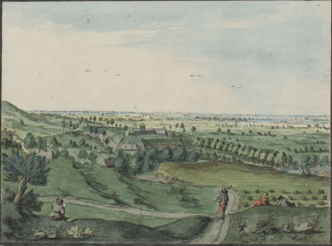 Drawing by Hendrik van Wel (c. 23 x 17 cm) from the album Forty-six landscape drawings of Netherlandish towns and villages Royal Library of Belgium Native nameFrench: Bibliothèque Royale